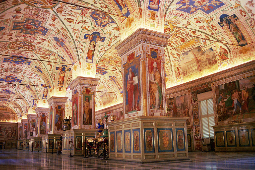 Vatican City, Salone sistino, Vatican Museum